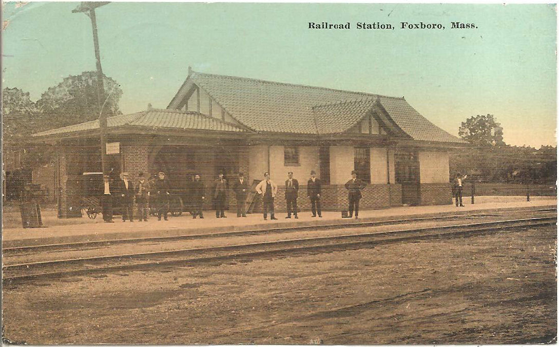 1912 divided back postcard of Foxboro station